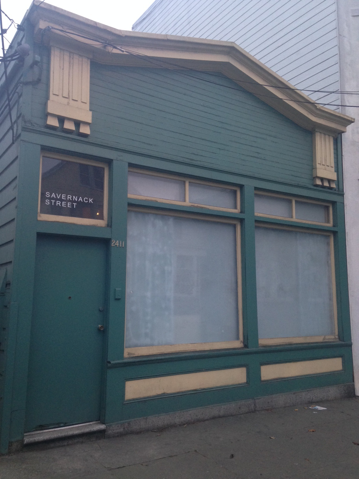 Savernack Street on Tuesday March 10, 2015 (San Francisco, CA)